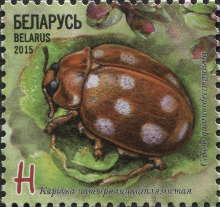 Stamps of Belarus, 2015